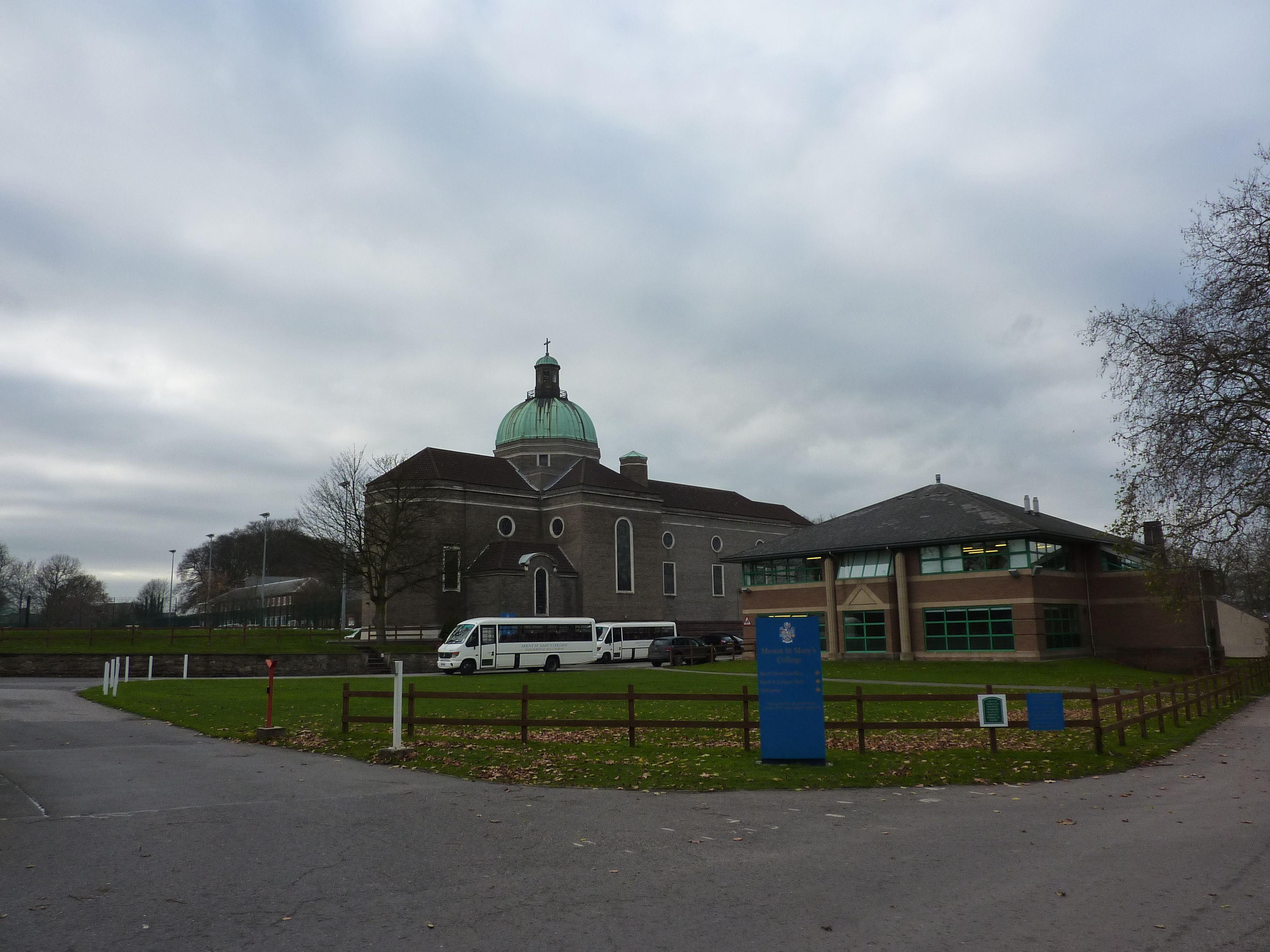 Mount St. Mary's RC College